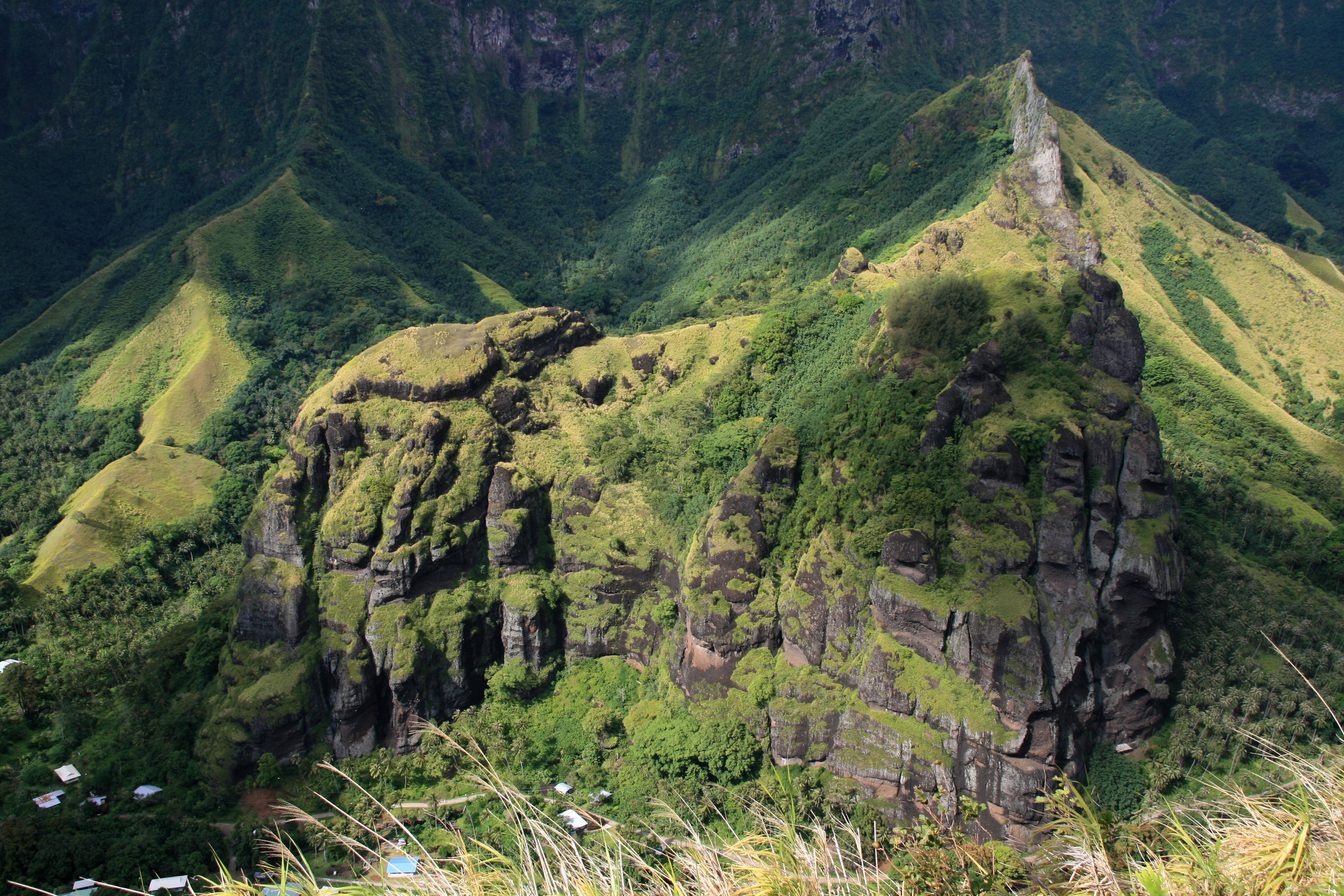 Basaltic rocks above the village of Hana Vave, island of Fatu Hiva, Marquesas islands, French Polynesia.